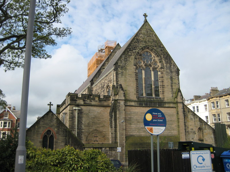 St Martin's parish church, Albion Road, Scarborough, North Yorkshire, England, seen from the east